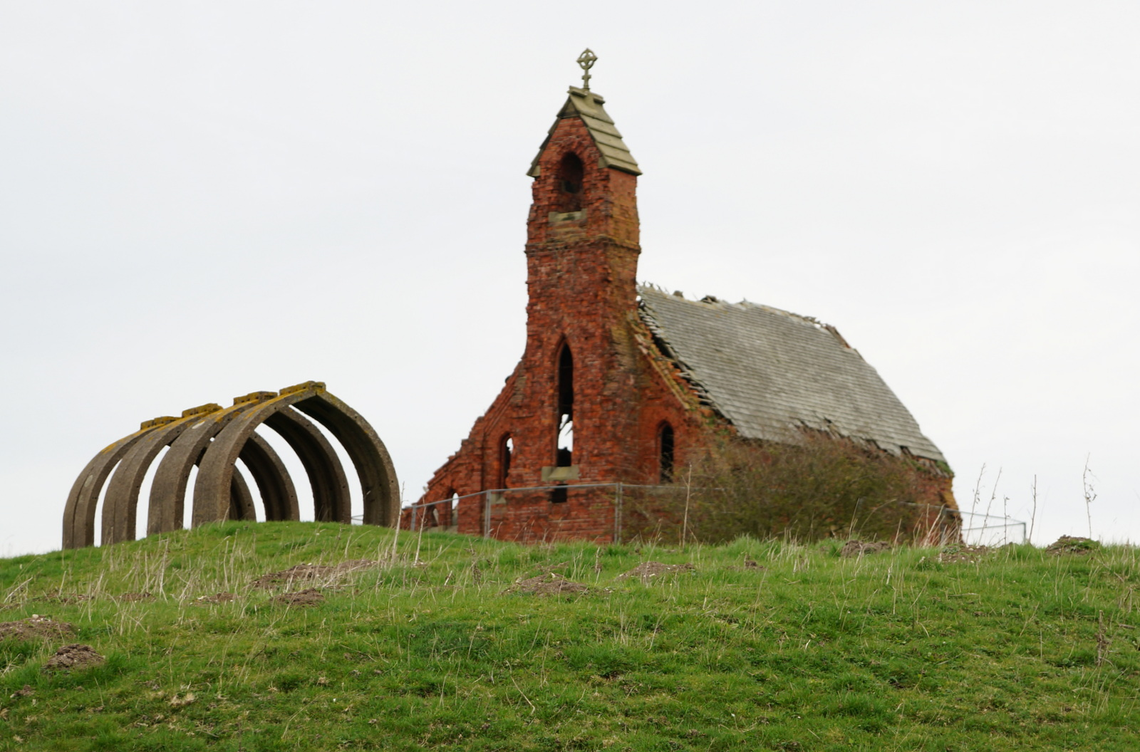 The ruined Chapel at Cottam. In the foreground are the remains of a Ruck Machine Gun Post - a type of pillbox.